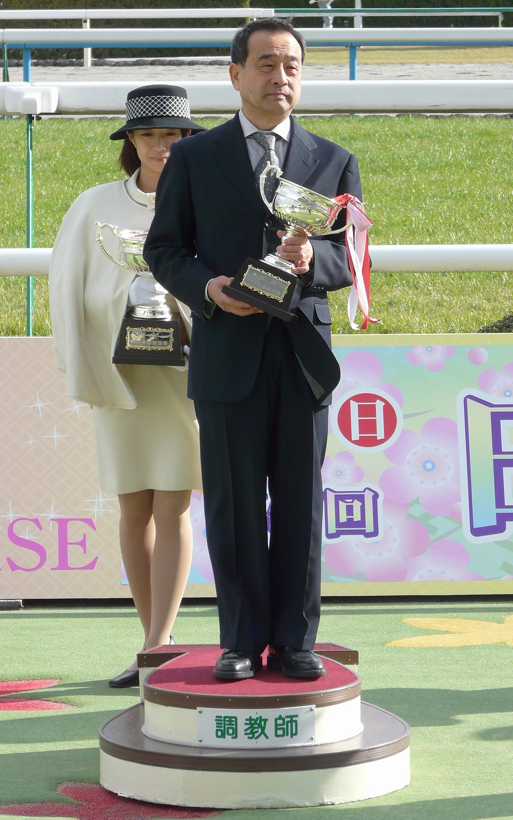 Mitsuru-Hashida20100116